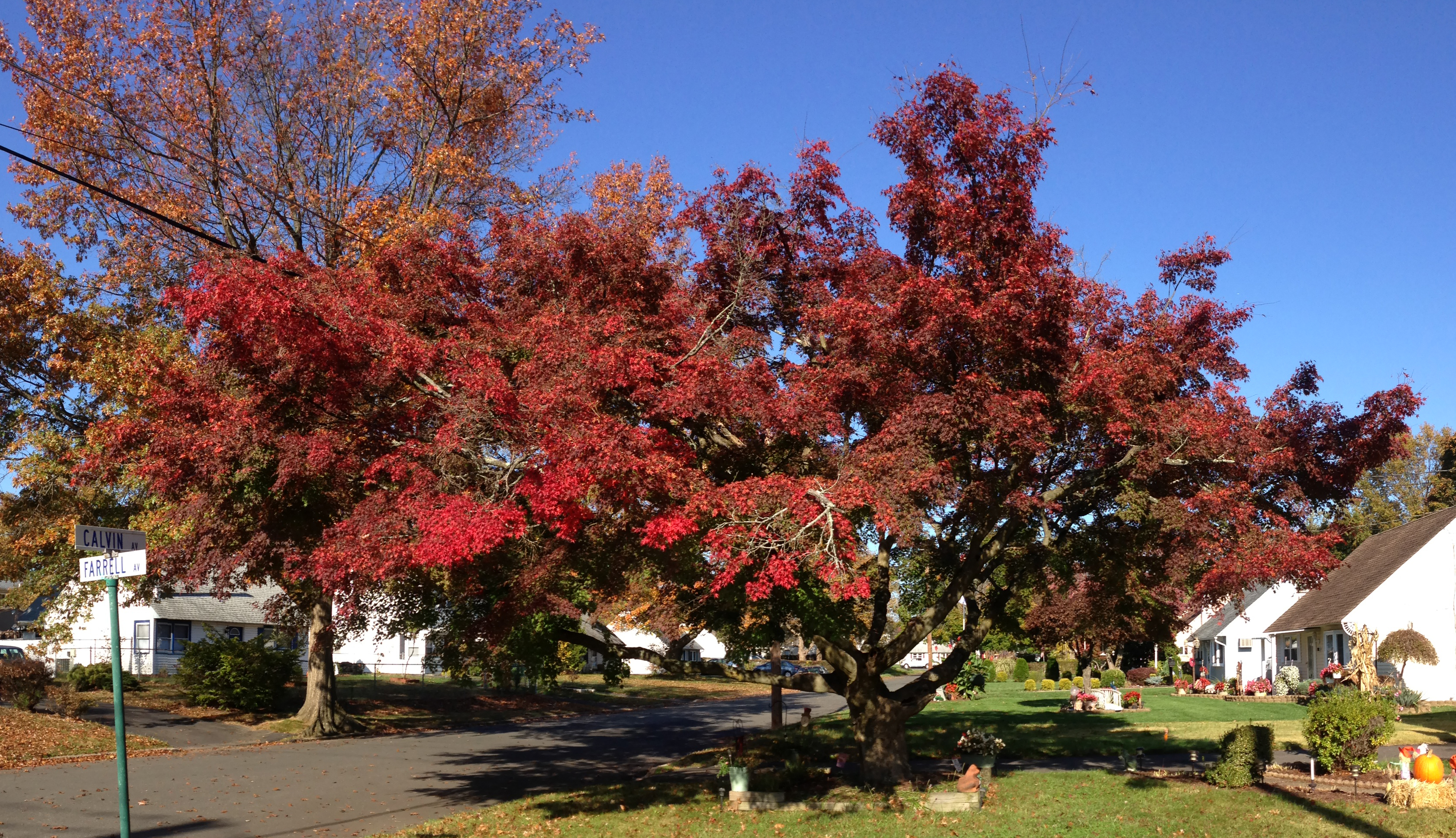 Green-leaved Japanese Maple during autumn leaf coloration along Calvin Avenue in Ewing, New Jersey